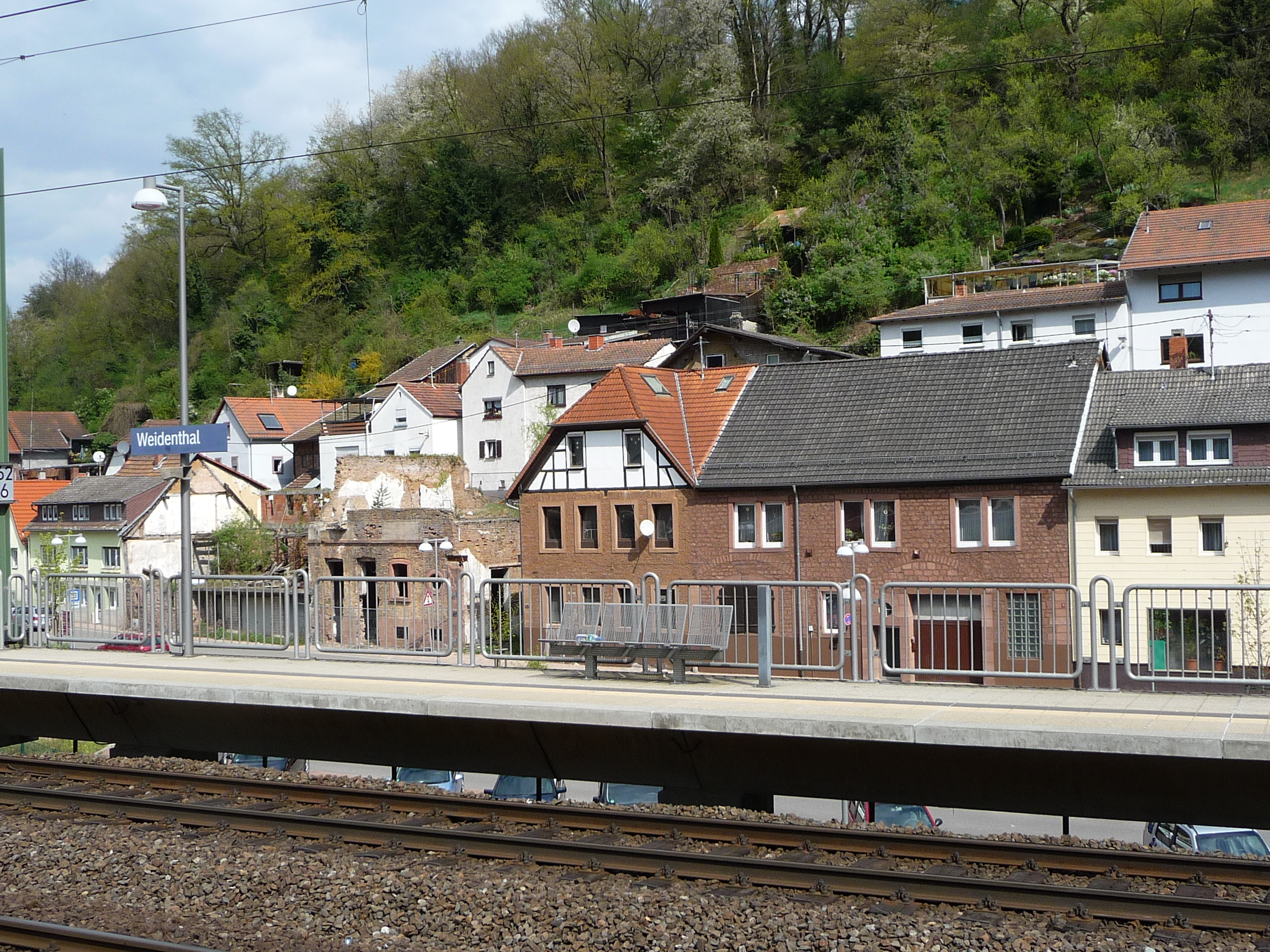 Weidenthal